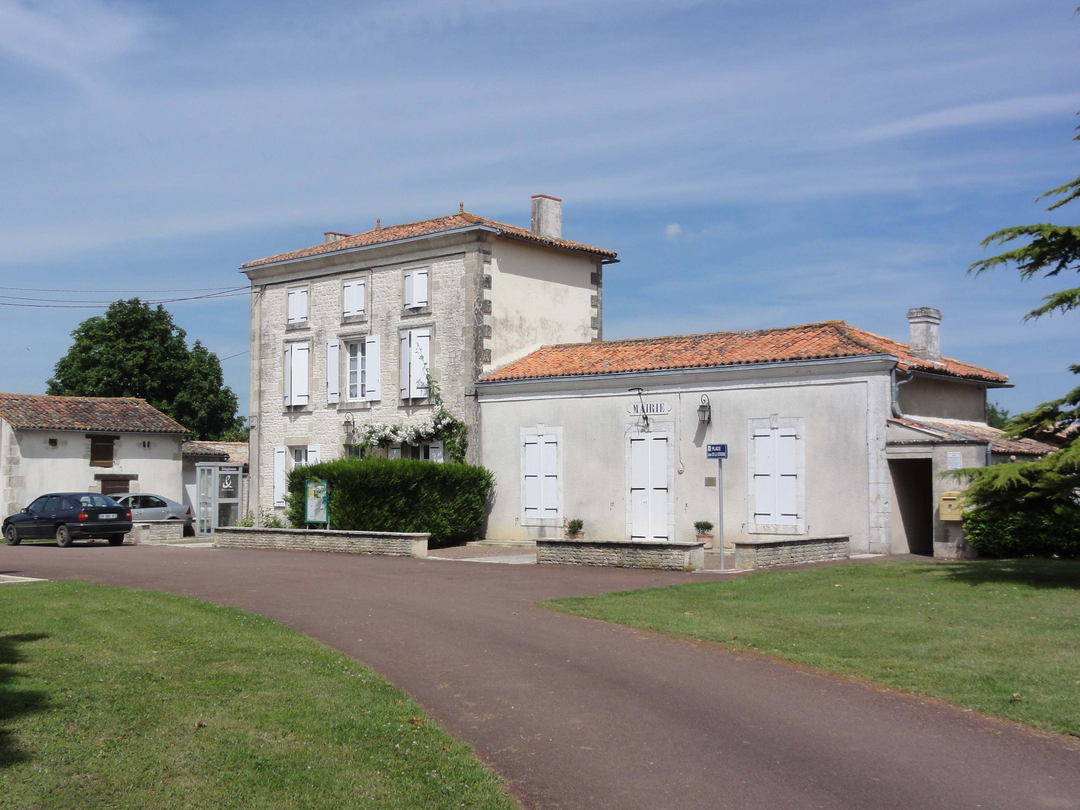 Villiers-sur-Chizé (Deux-Sèvres) mairie